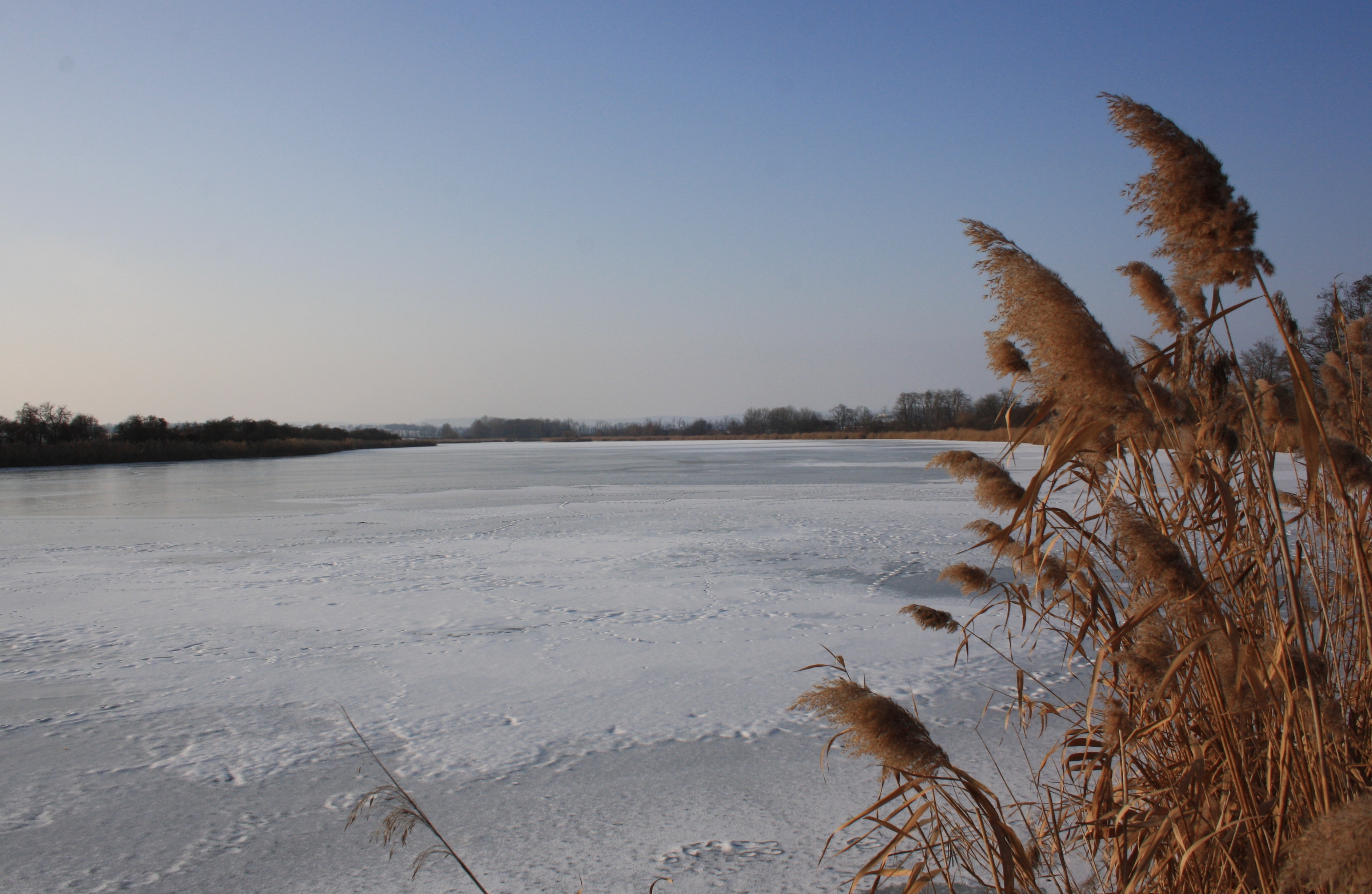 Horní šumický pond and nature reserve "Šumický pond". Brno-Country District, South Moravian Region, Czech Republic